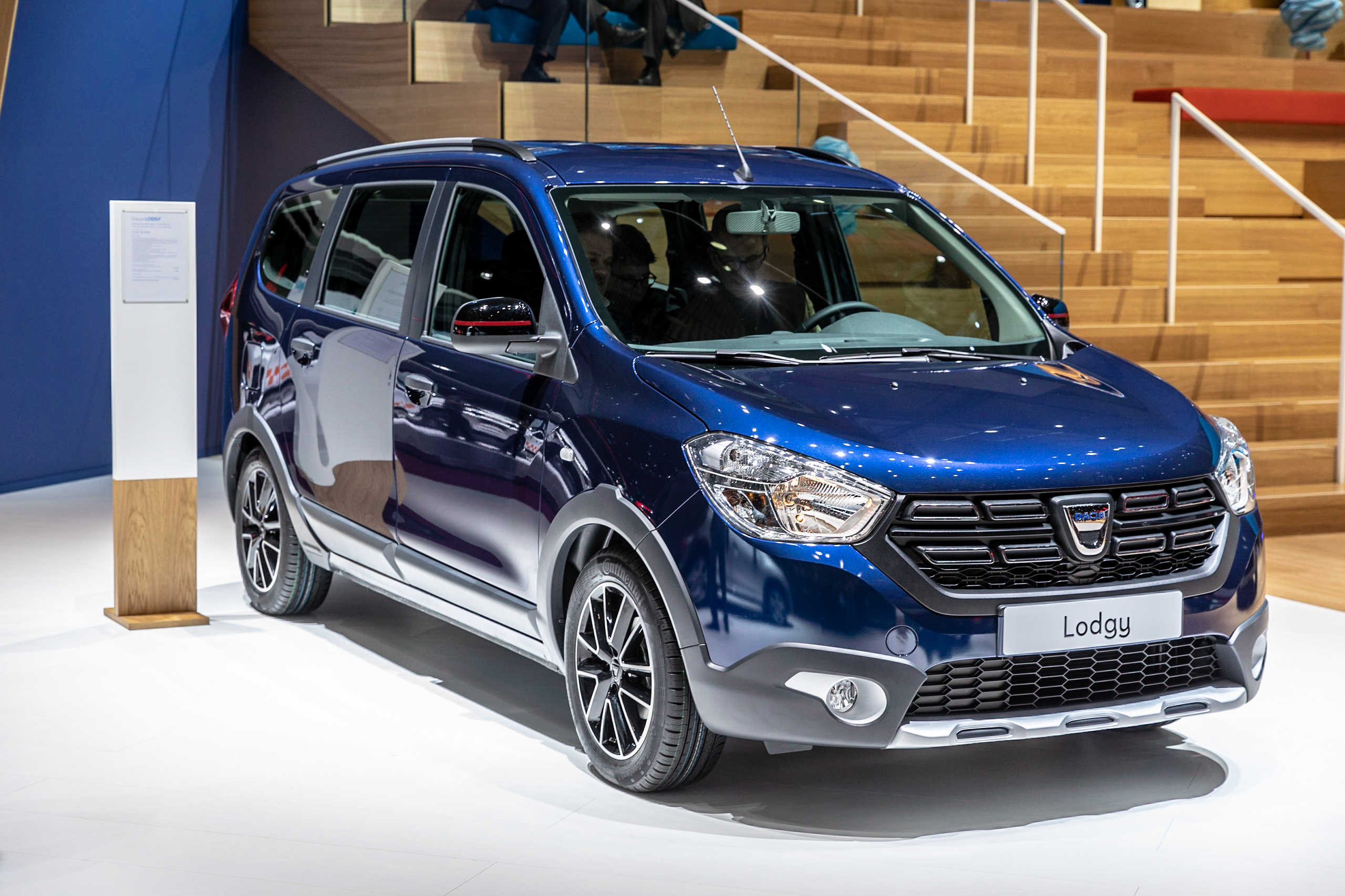 Geneva International Motor Show 2019, Le Grand-Saconnex